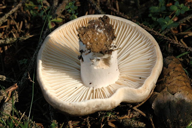 Russula nigricans from Commanster, Belgium. The determination of the species shown in this picture has been verified.